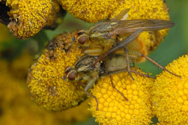 Picture taken in Commanster, Belgian High Ardennes . Species: Scathophaga suilla couple